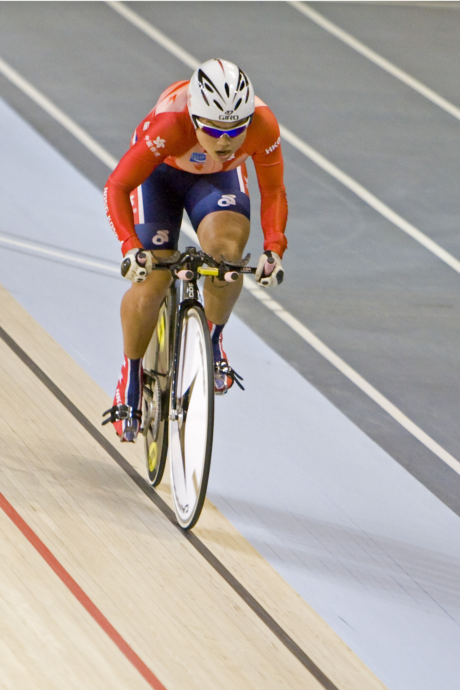 Wai Sze Lee, a track racing cyclist from Hong Kong, at the UCI Track Cycling World Championships 2010 in Copenhagen.